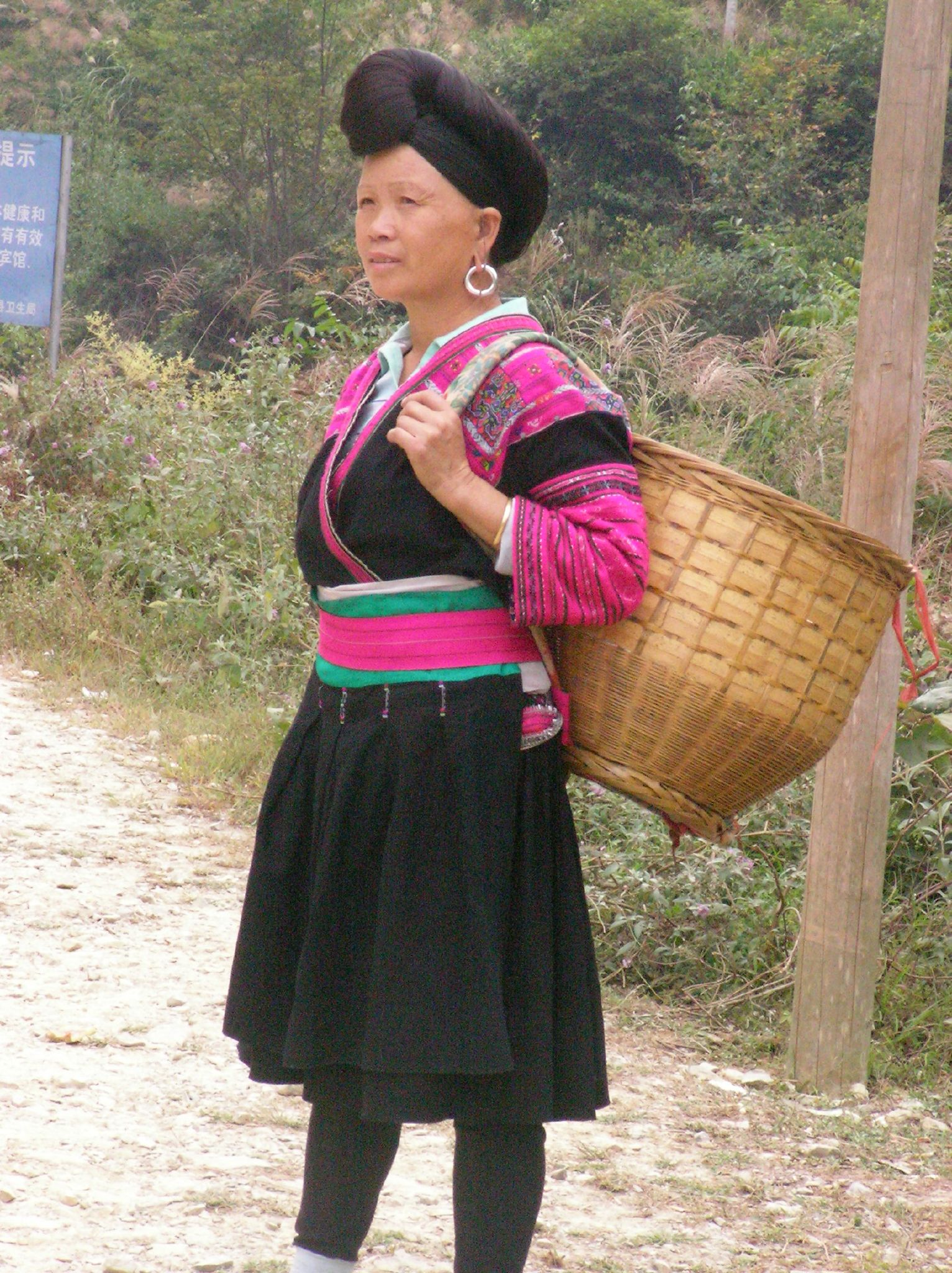 yao woman by the roadside to the villages